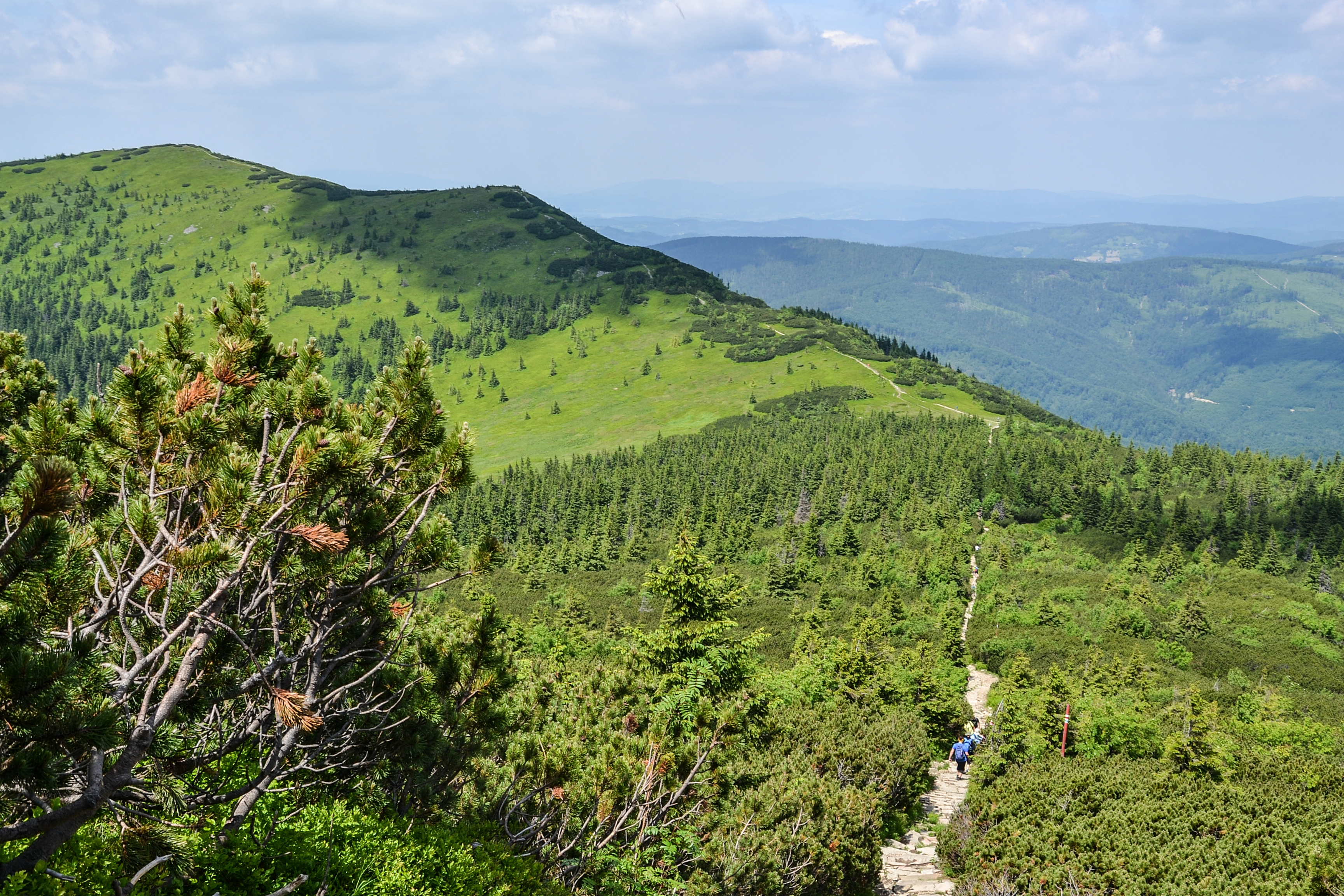 Mała Babia Góra, Beskid Żywiecki mountains This is a photography of protected area with CRFOP ID PL.ZIPOP.1393.PN.19